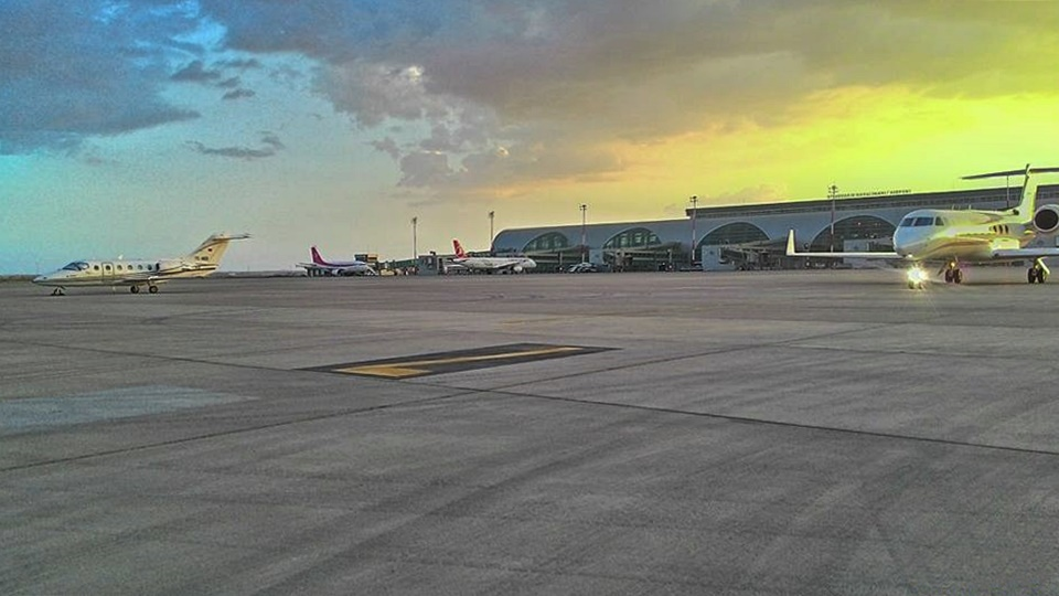 The apron area of Diyarbakır Airport